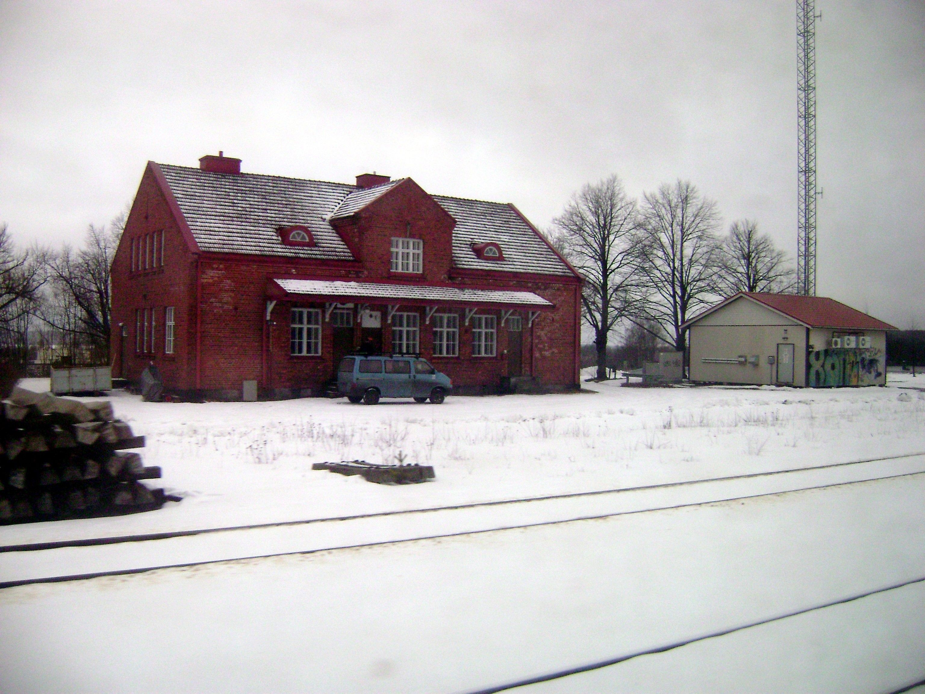 Lielahti railway station in Tampere, Finland.